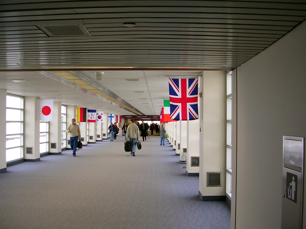 Walkway connecting terminals in the Eastern Iowa Airport featuring flags from many countries.